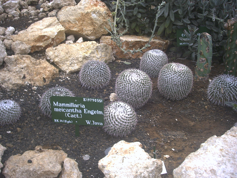 Mammiliria meicantha Engelm, photo is taken at Bedugul Botanical Garden, Bali, Indonesia